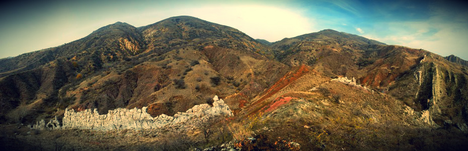 Dveil's wall Ovche pole FYROM